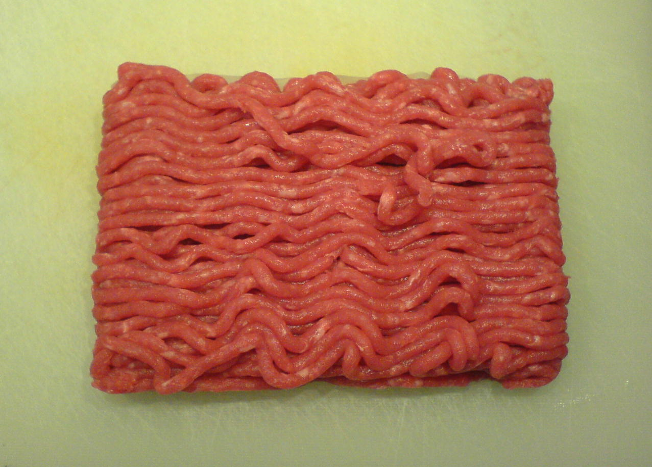 Ground beef